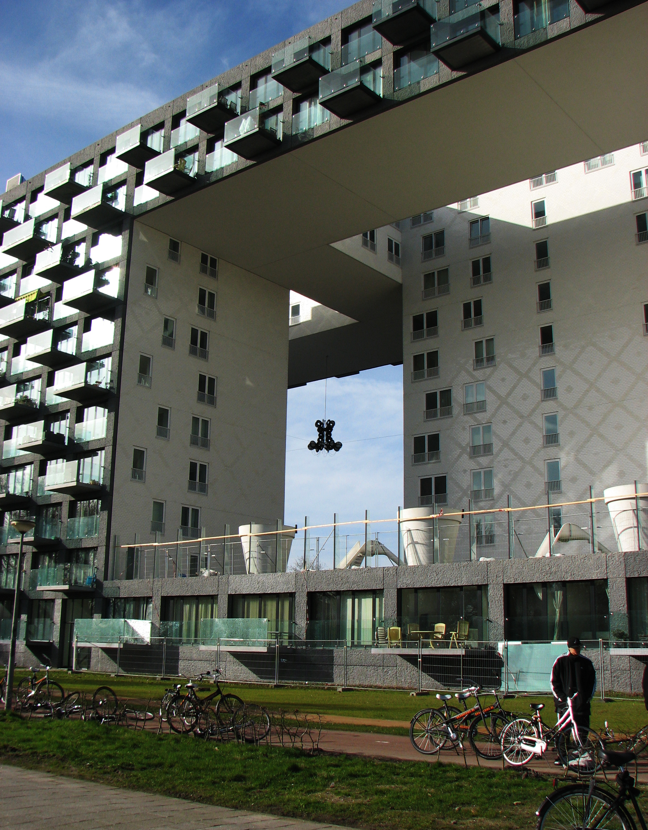 Parkrand designed by MVRDV 2007 is a large housing complex with holes cut through it to allow the surround buildings to have a view of the water; Parkrandgebouw - Eendrachtspark, Geuzenveld, Amsterdam Nieuw-West.